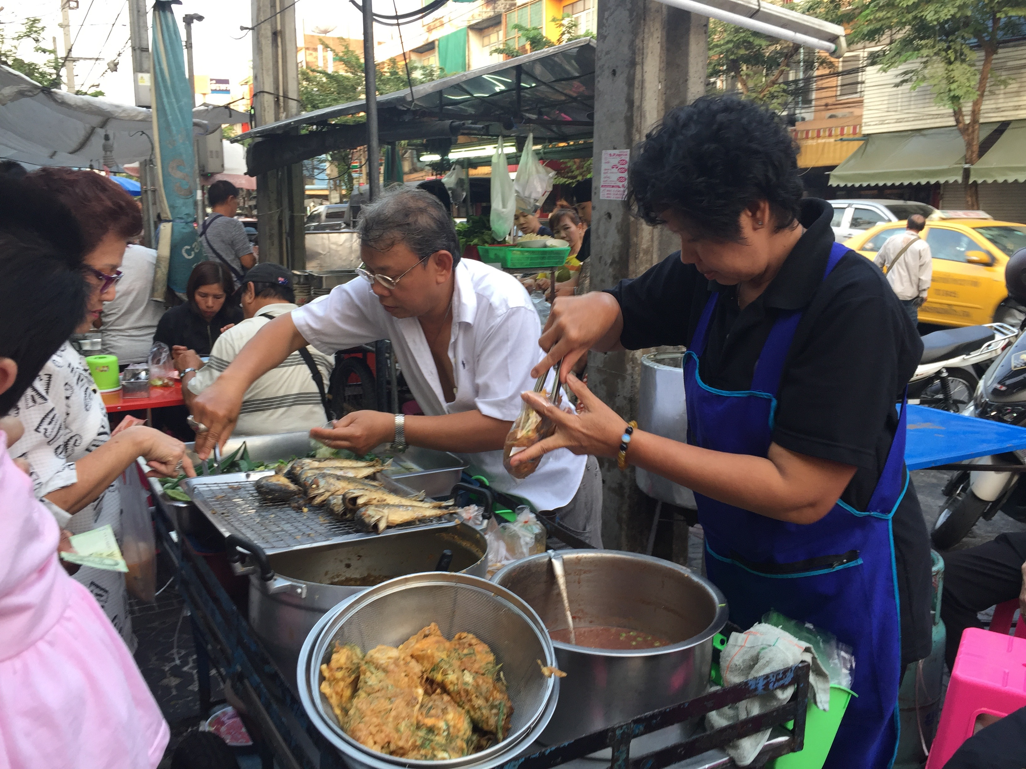 Street foods in Tha Din Daeng Market